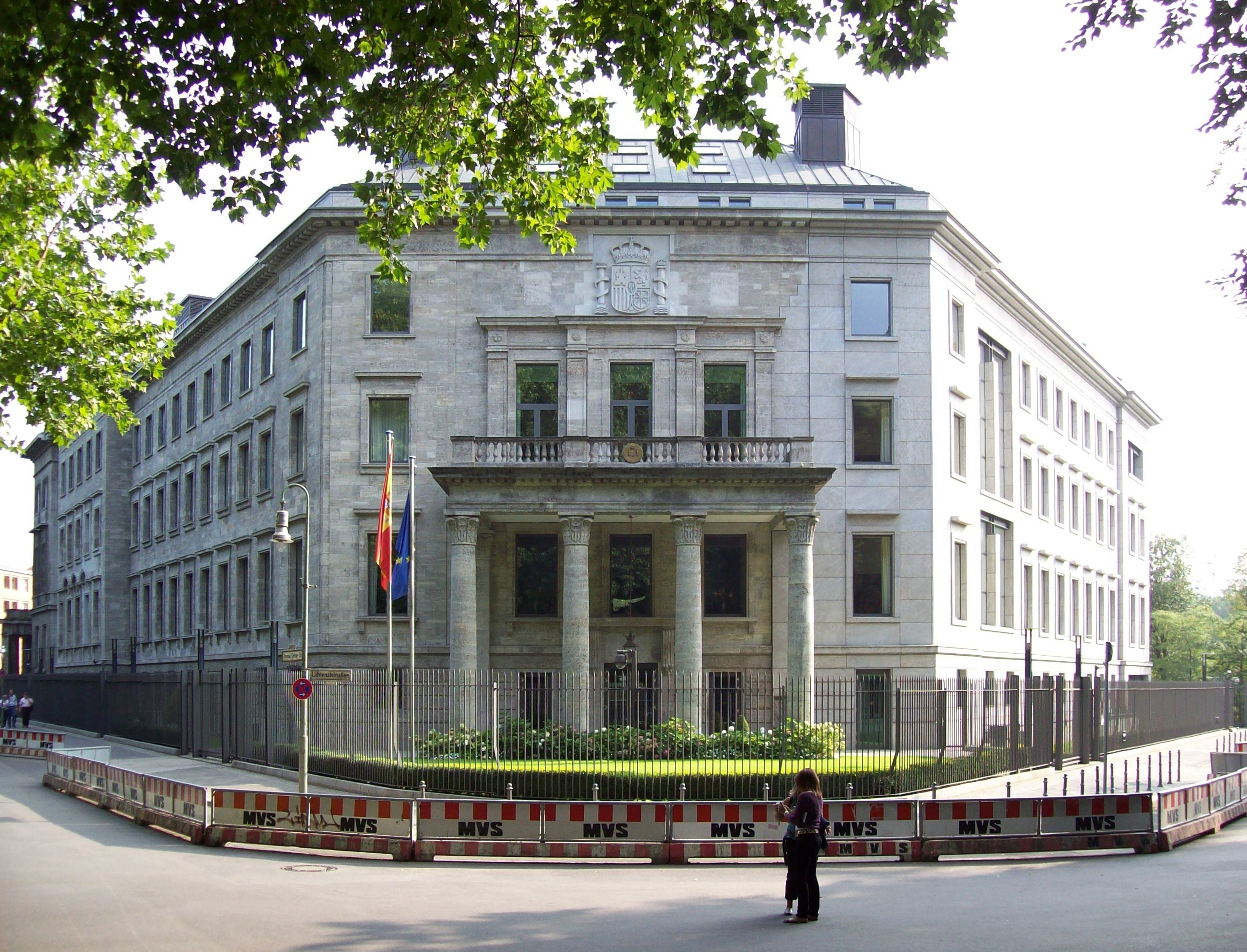 The Embassy of Spain in Berlin Liechtensteiner Allee 1 Tiergarten